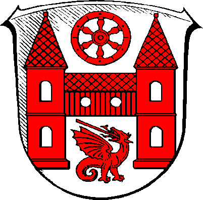 Coat of Arms of Geisenheim